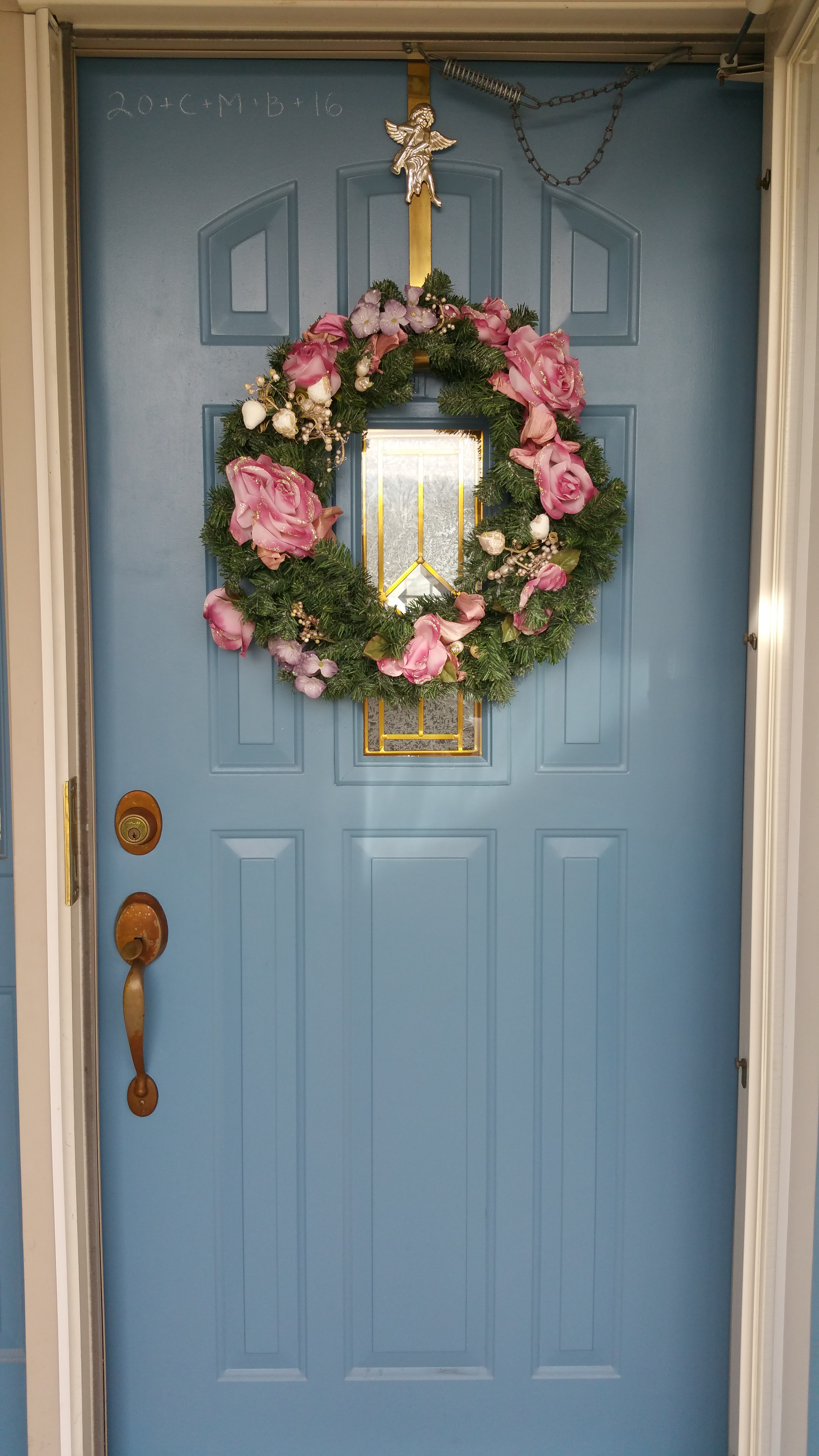 The image is of a brass wreath hanger holding a placard of the Archangel Gabriel and a Christmas wreath on the door of an American household for the seasons of Advent, Christmastide and Epiphanytide. I clicked this picture on January 30, 2016.